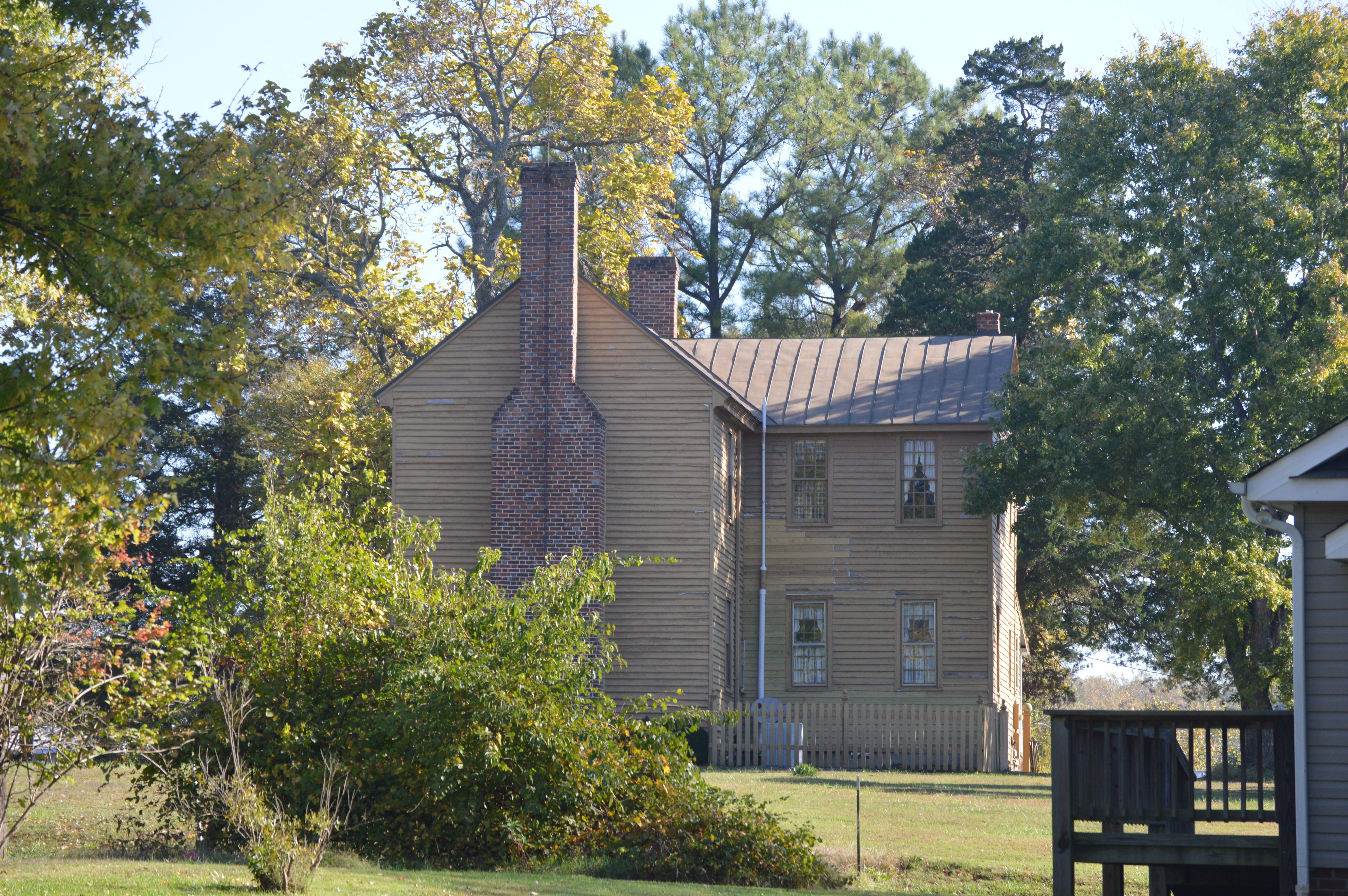 Western side of Needham, located on State Route 45 north of Farmville in Cumberland County, Virginia, United States. Built in 1802, it is listed on the National Register of Historic Places.